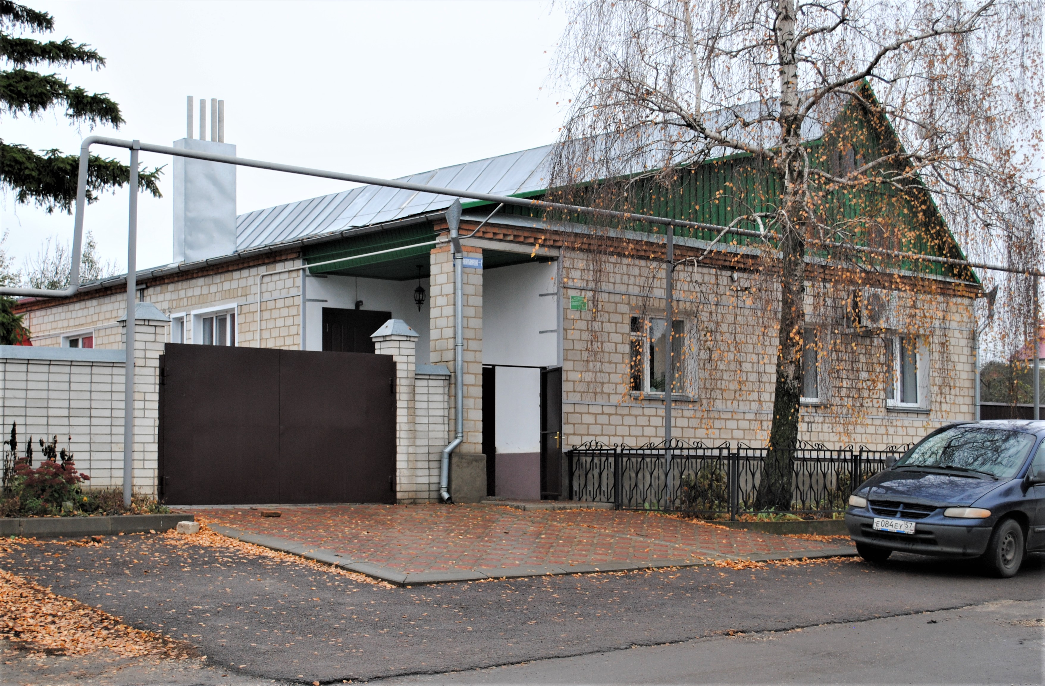 Churche in Livny